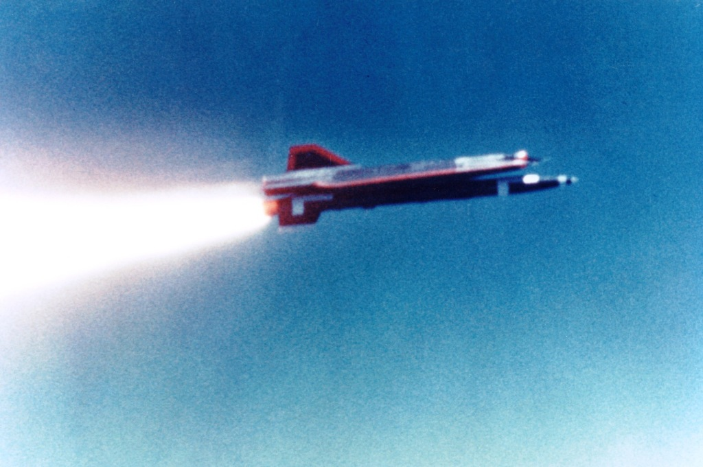 A D-21 launches from its B-52 carrier aircraft, using a massive rocket booster to accelerate it to a high enough speed for its ramjet engine to operate. Photograph was most likely taken by a crewman in the B-52 that launched the drone. The D-21 program was top secret at the time, ruling out the possibility of a civilian taking the picture.